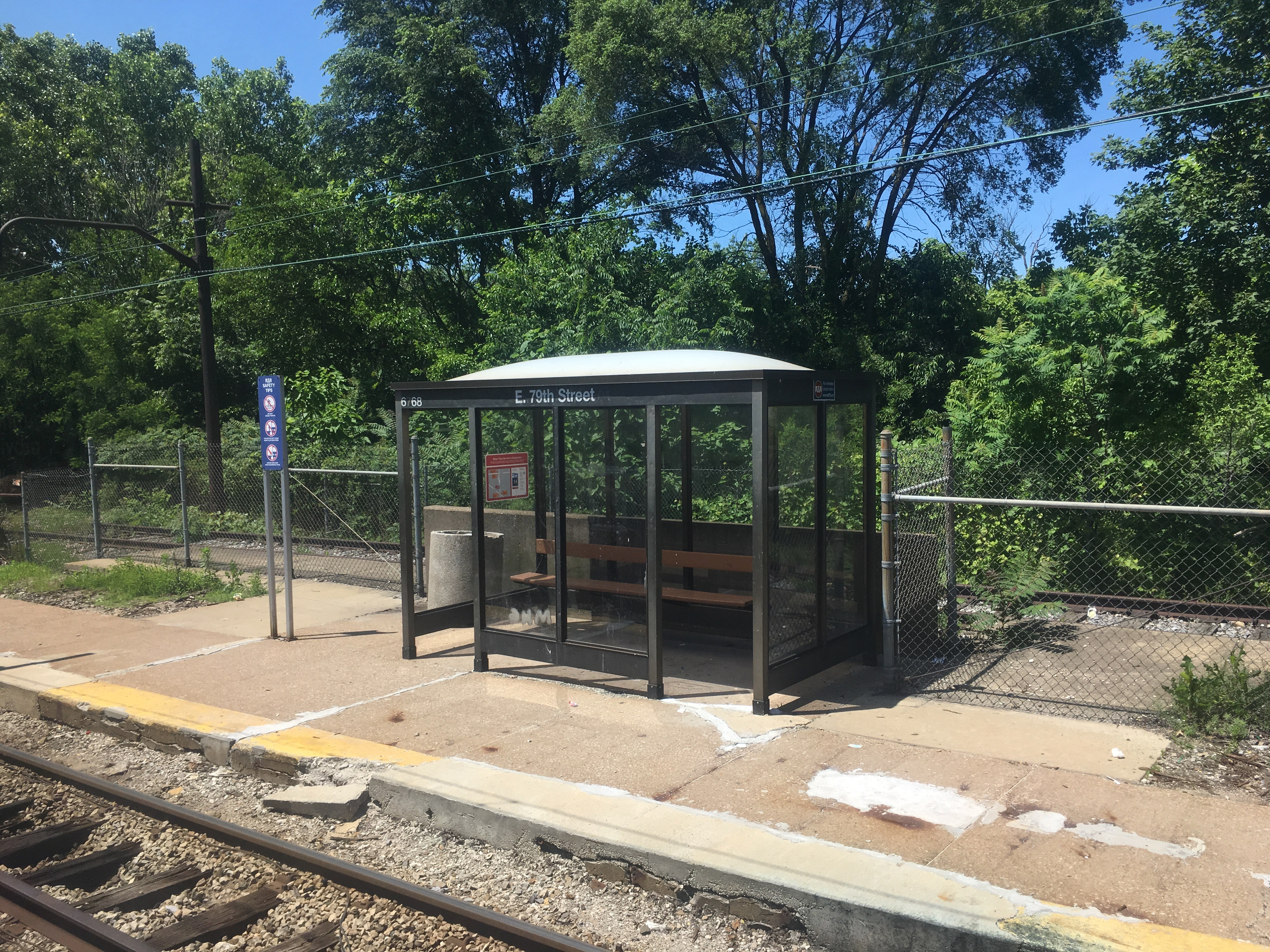 East 79th station platform - Blue and Green Lines